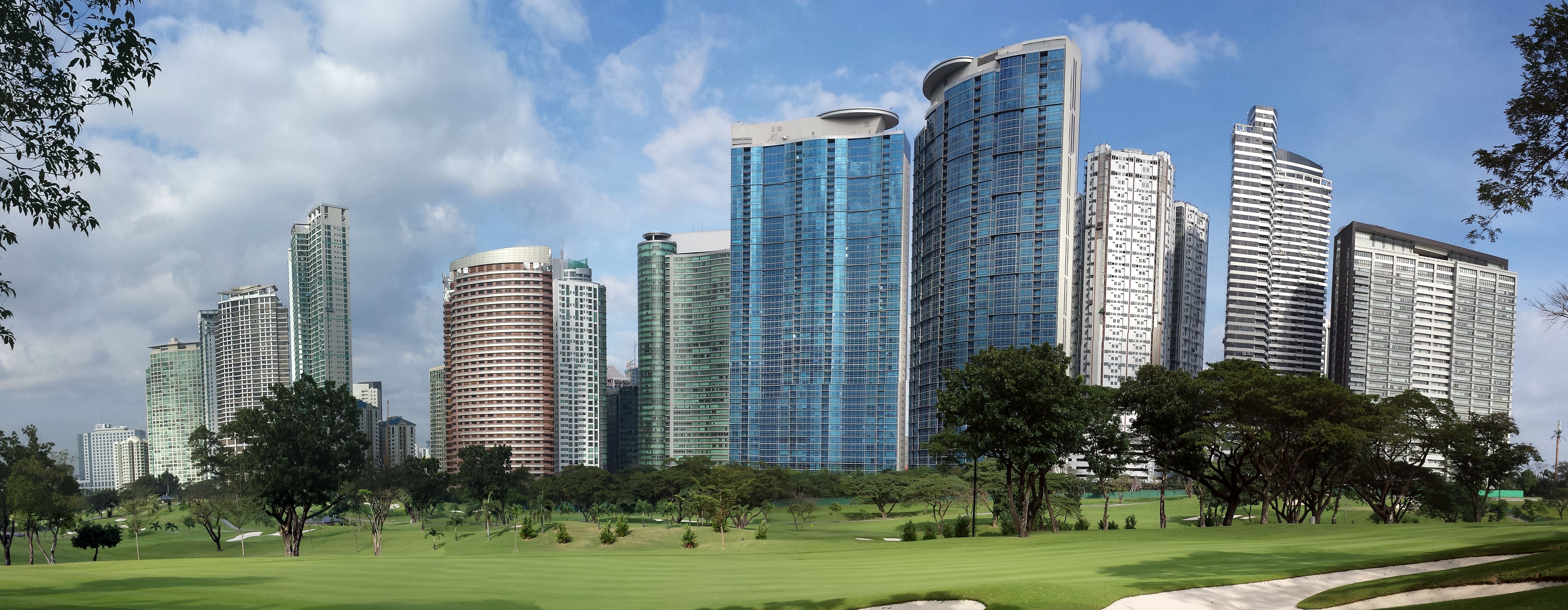 Bonifacio Global City with the Manila Golf and Country Club in the foreground.